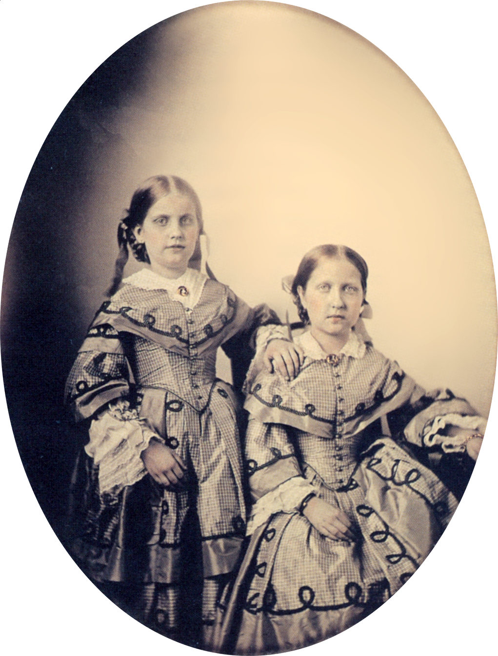 An ambrotype of Brazilian Princess Leopoldina and Isabel (seated), 1855.